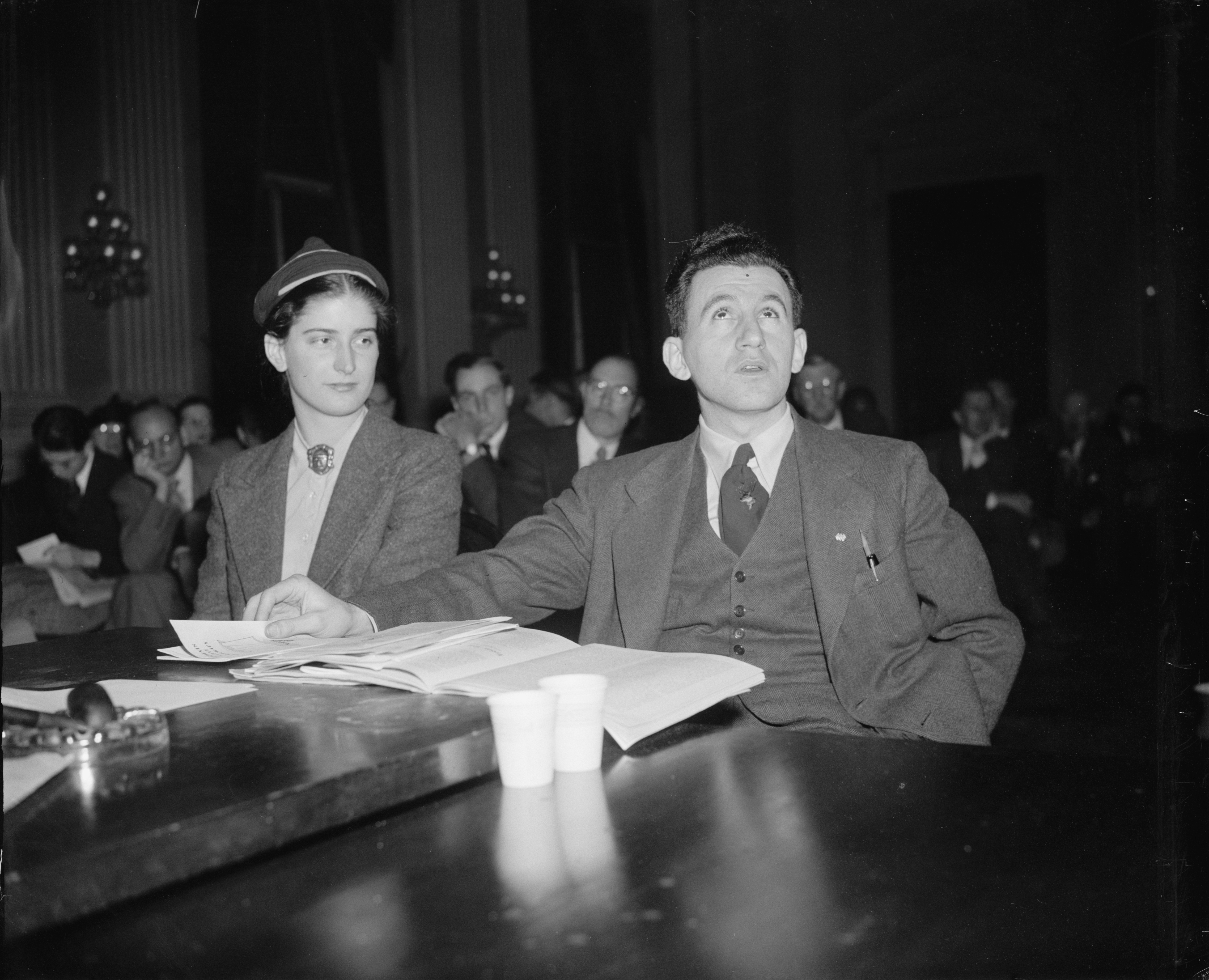 Before Dies Committee. Washington, D.C., Dec. 1, 1939. The Dies Committee Investigating un-American activities today questioned Joseph P. Lash, Executive Secretary of the American Students' Union, and Miss Agnes Reynolds, College Secretary of the Union. Lash testified that he was a member of the Socialist Party from 1929 to 1937. He said he resigned because he believed that the Socialist Party was subordinating the interests of the people of a whole to the interests of factional strife